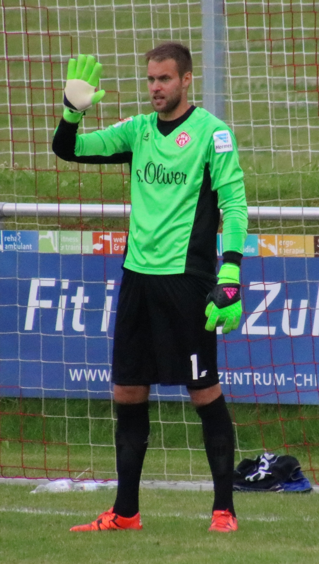 friendly match preseason